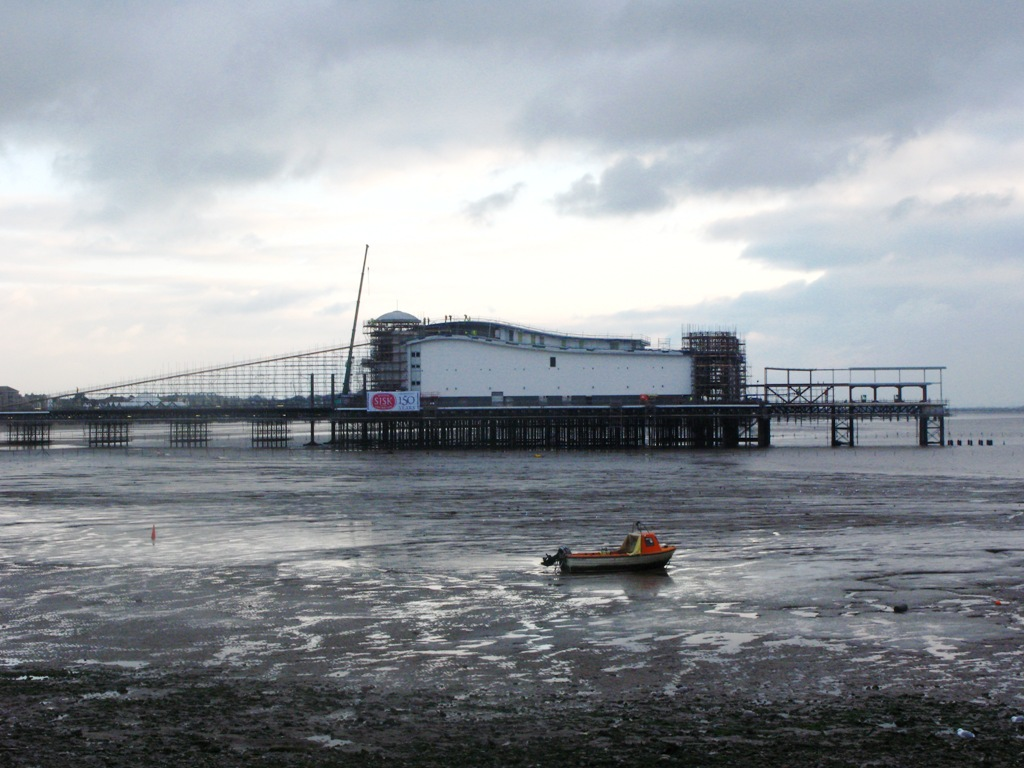 The new Grand Pier pavillion takes shape at Weston-super-Mare, North Somerset, England, in February 2010. It is being built to replace one destroyed by fire in 2008. An inclined ramp has been built to ease the movement of people and materials to the top of the structure.